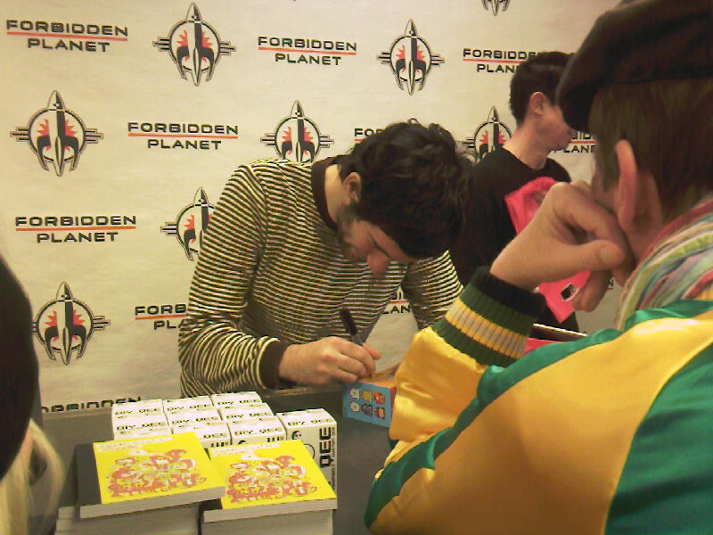 Jon Burgerman signing products of his creation.